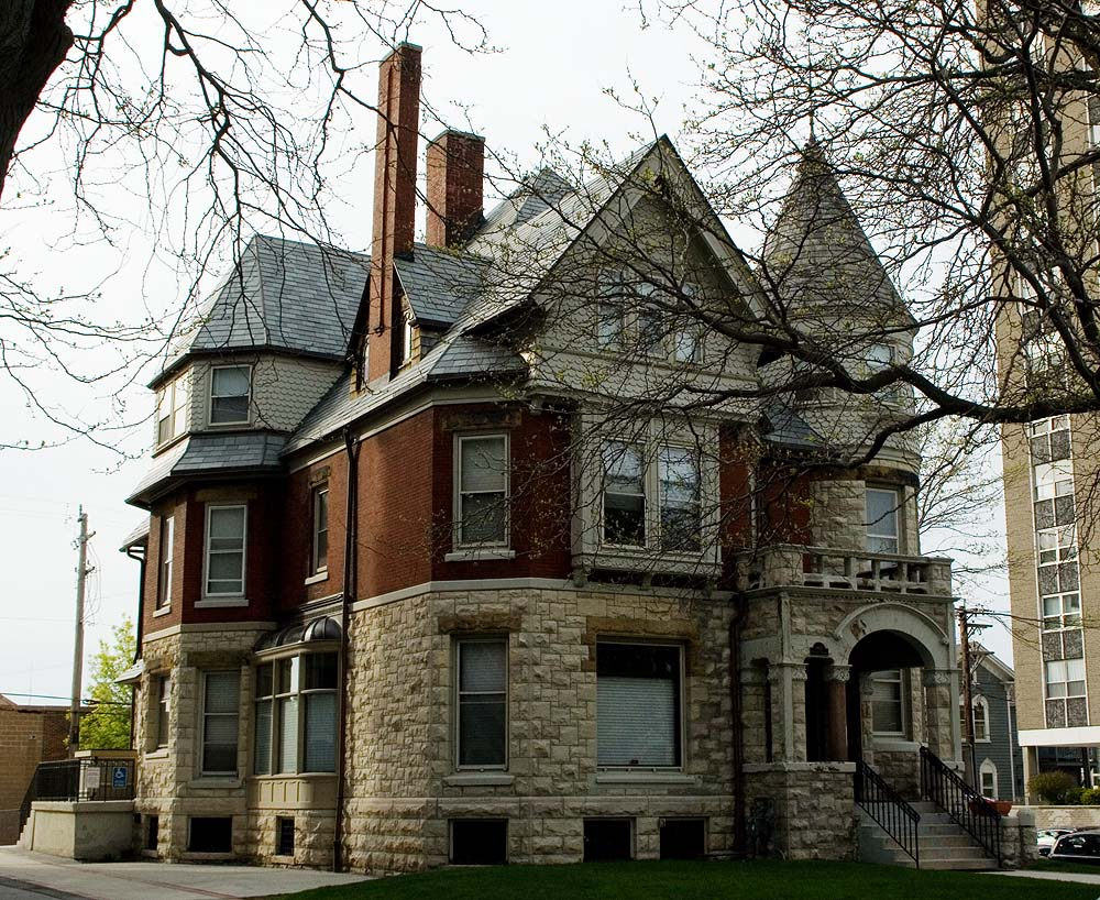 Emanuel D. Adler House, Milwaukee, Wisconsin. National Registered Historic Place.